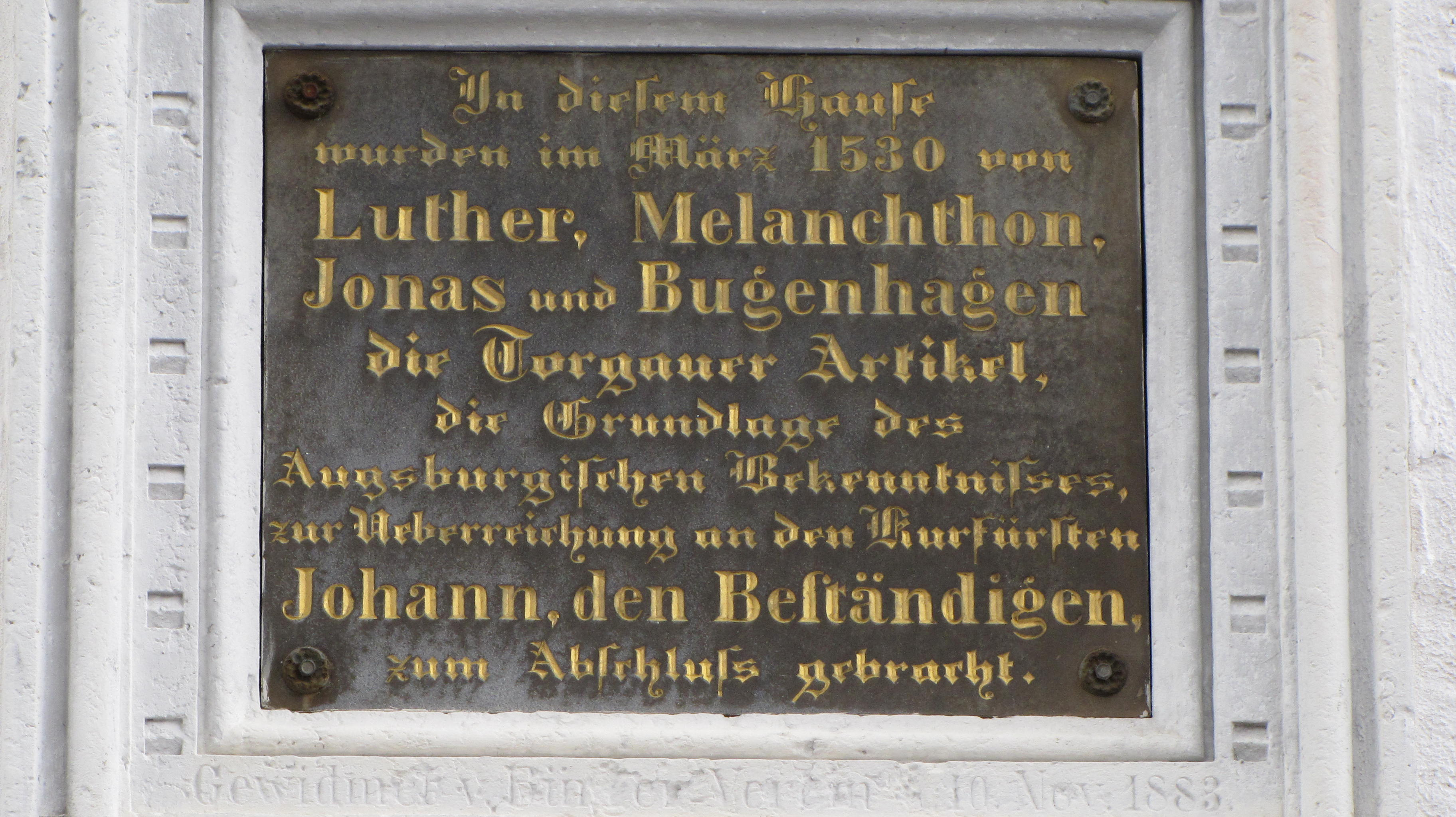 Plaque at Alte Superintendentur in Torgau commemorating the Torgauer Artikel